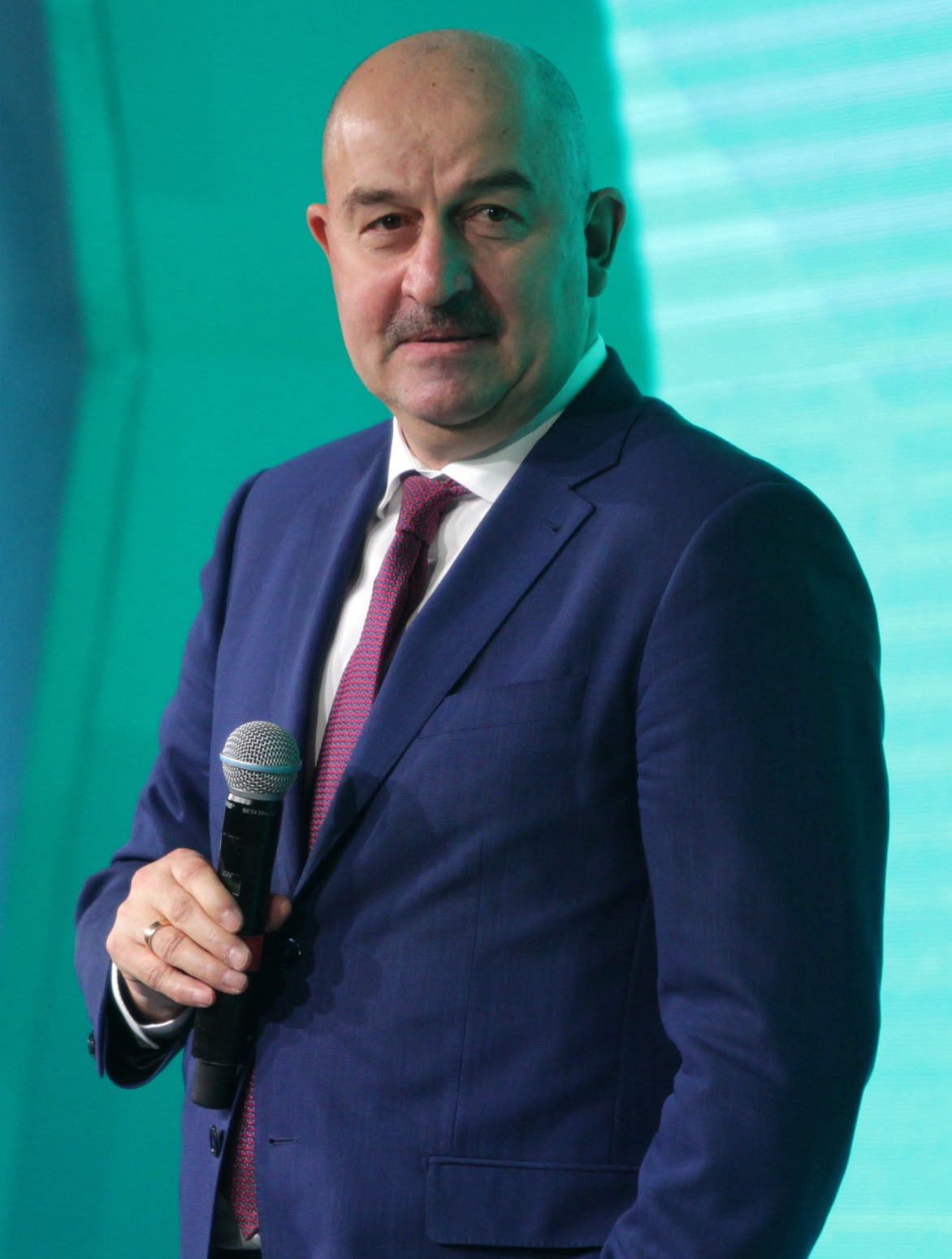 Stanislav Cherchesov at the presentation of the UEFA Euro 2020 logo in Saint Petersburg, Russia.